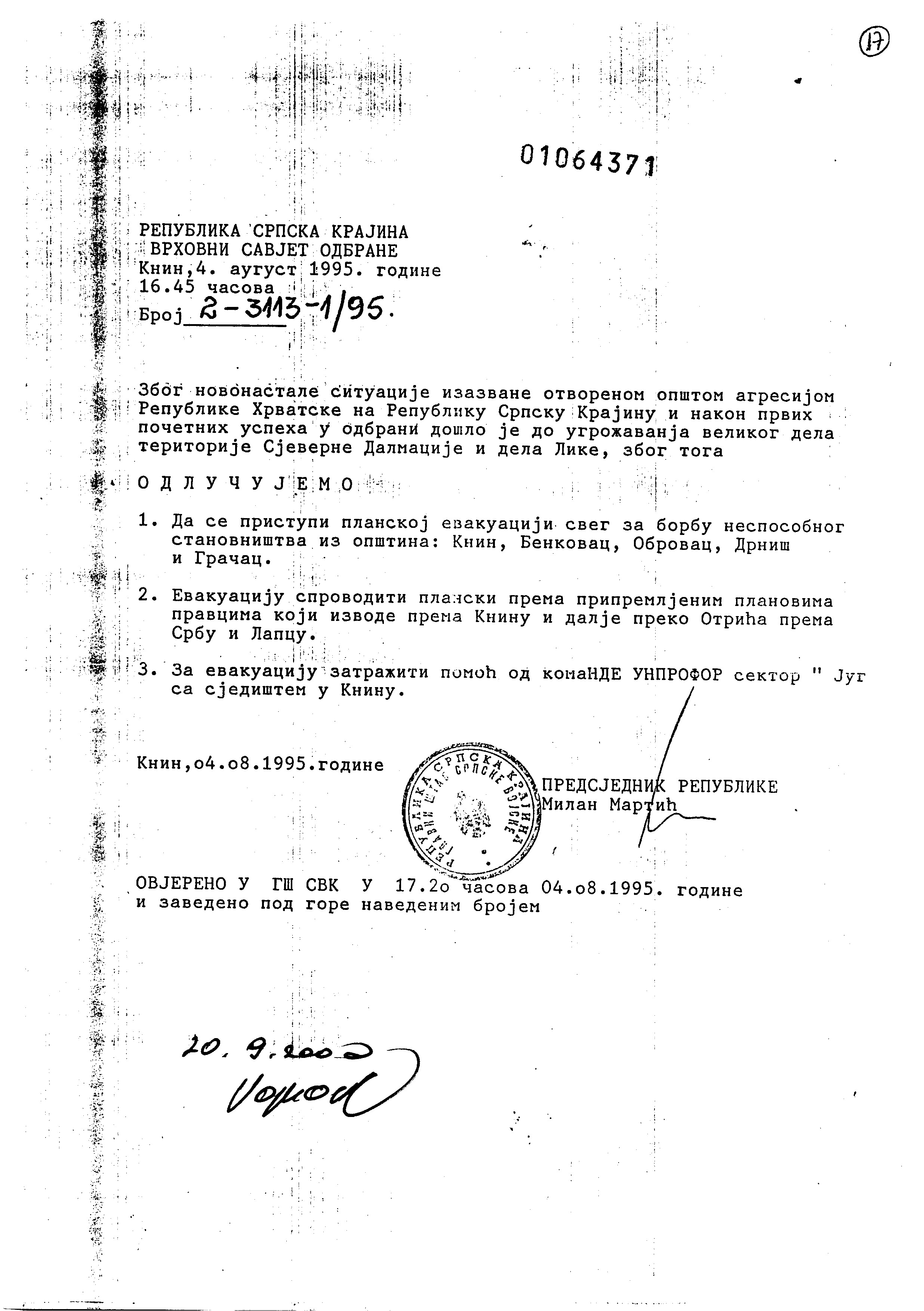 Milan Martić's order to evacuate civilians from areas of "Republic of Serb Krajina-Scan" affected by military operations. Srpskohrvatski / српскохрватски: Naređenje Milana Martića za evakuaciju civila sa područja "Republike Srpske Krajine" pogođenih vojnim dejstvima.